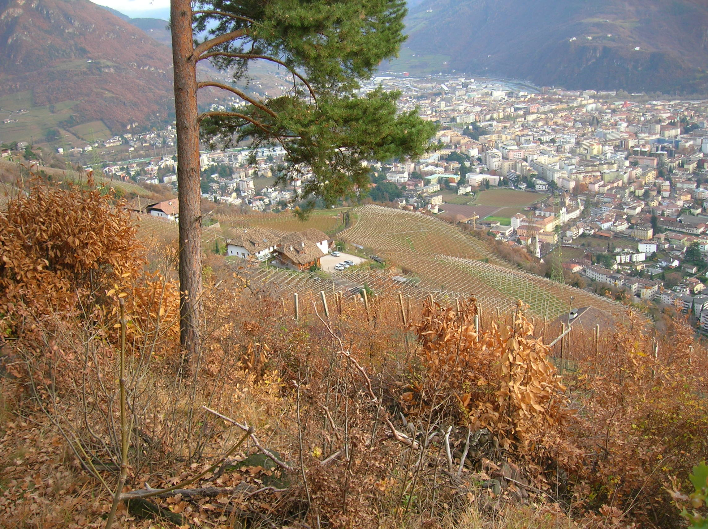 view of Bolzano from Guntschna